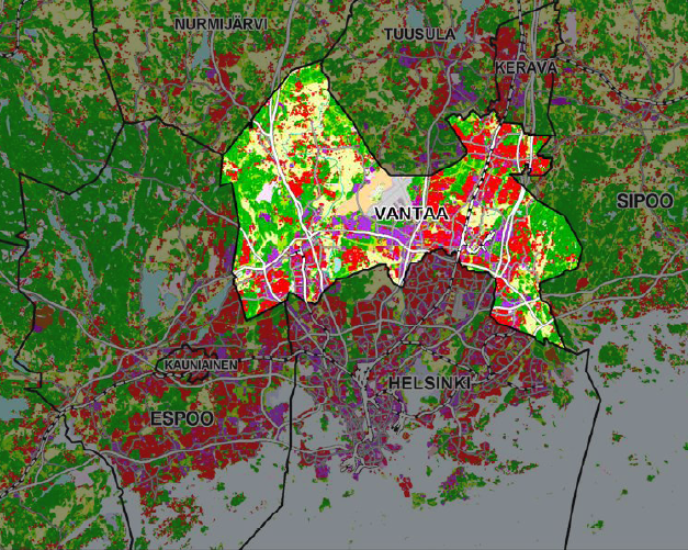 Map of Helsinki metropolitan area, showing the land use. Vantaa highlighted. Key Green: Forest. Red:Dwellings Purple: Industrial and office use Yellow: Fields Grey: Traffic use